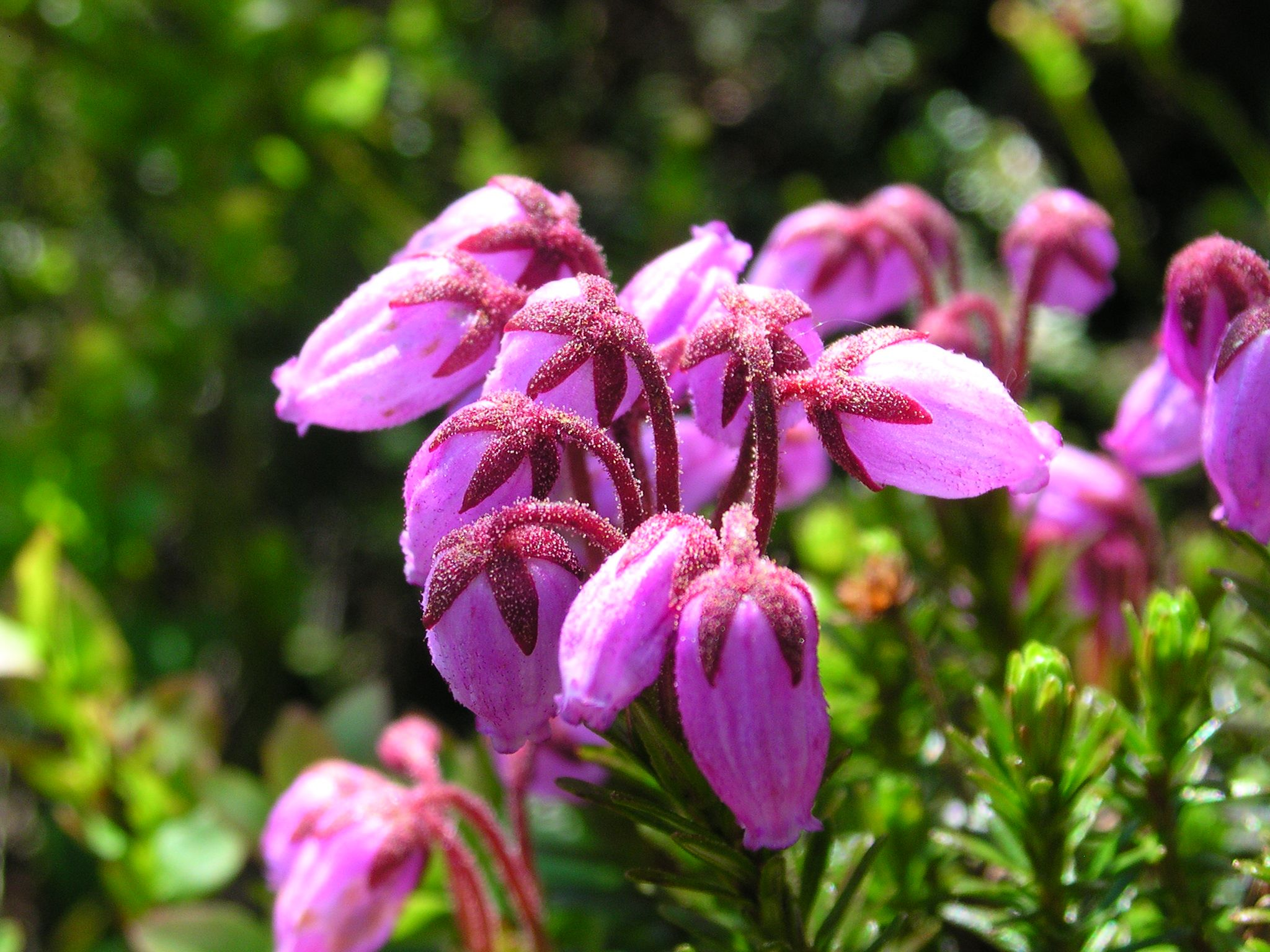 Blue mountainheath